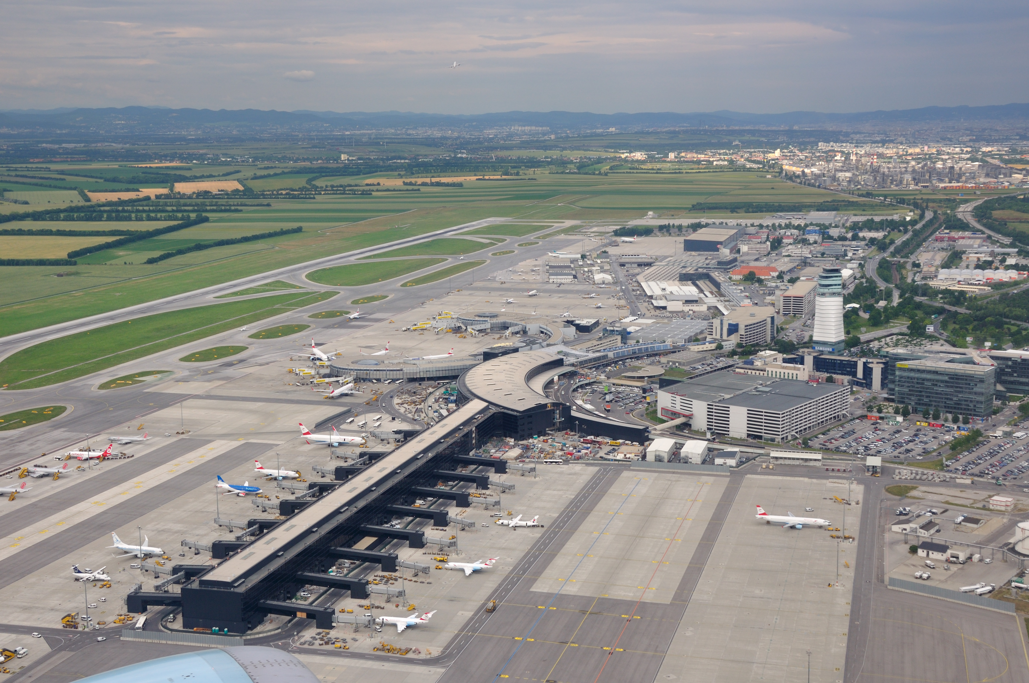 Austria, climbing out of Wien-Schwechat